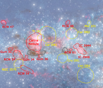 Map of Vela Molecular Ridge